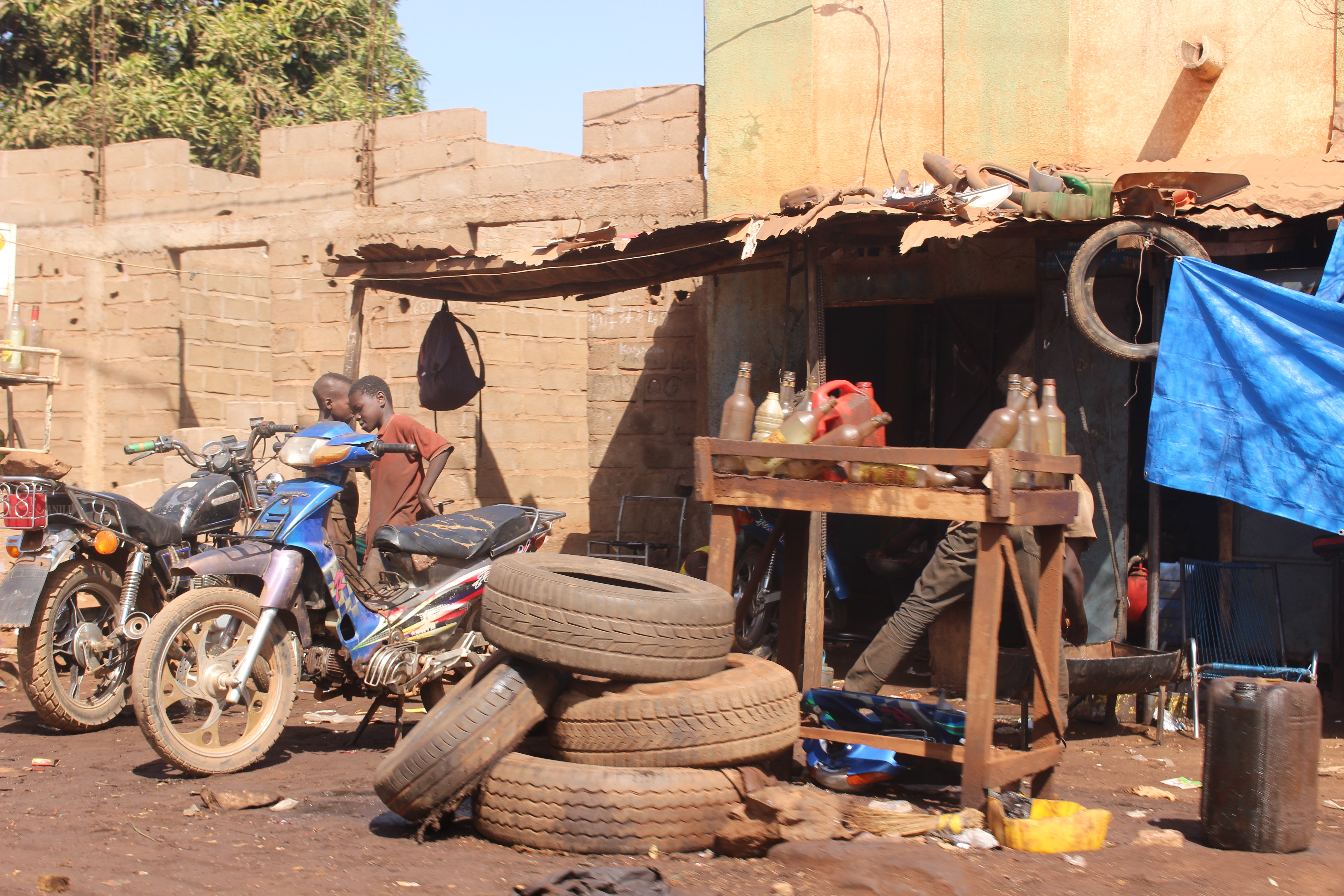 This is an image with the theme "Africa on the Move or Transport" from: Mali